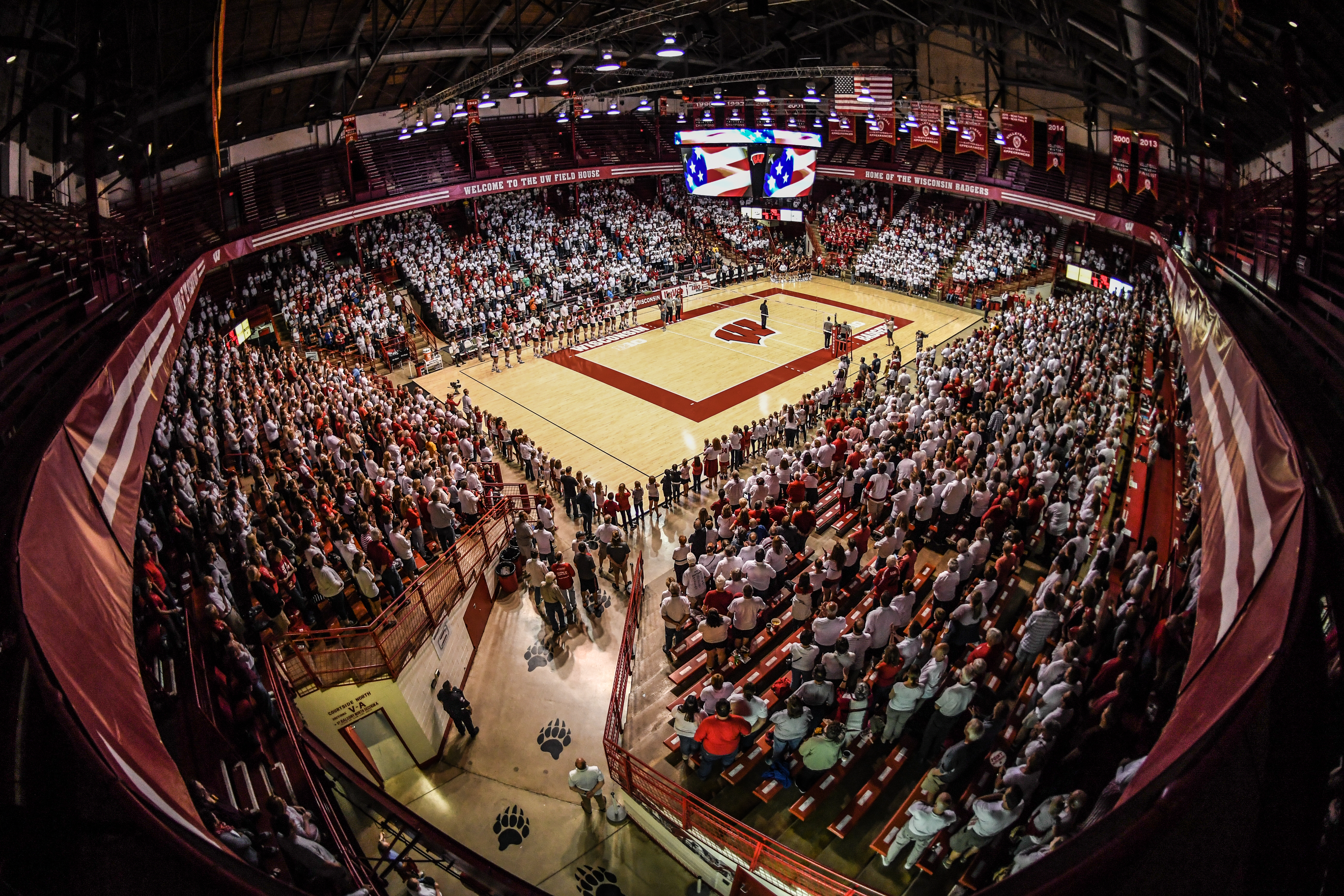 The UW Field House before a volleyball match on 10.4.17